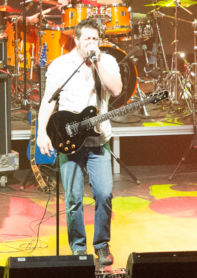 Enchant - Headlining ROSFest - Gettysburg, PA May 3, 2015